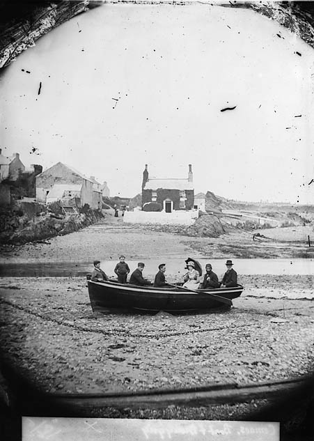 1 negative : glass, wet collodion, b&w ; 16.5 x 12 cm.